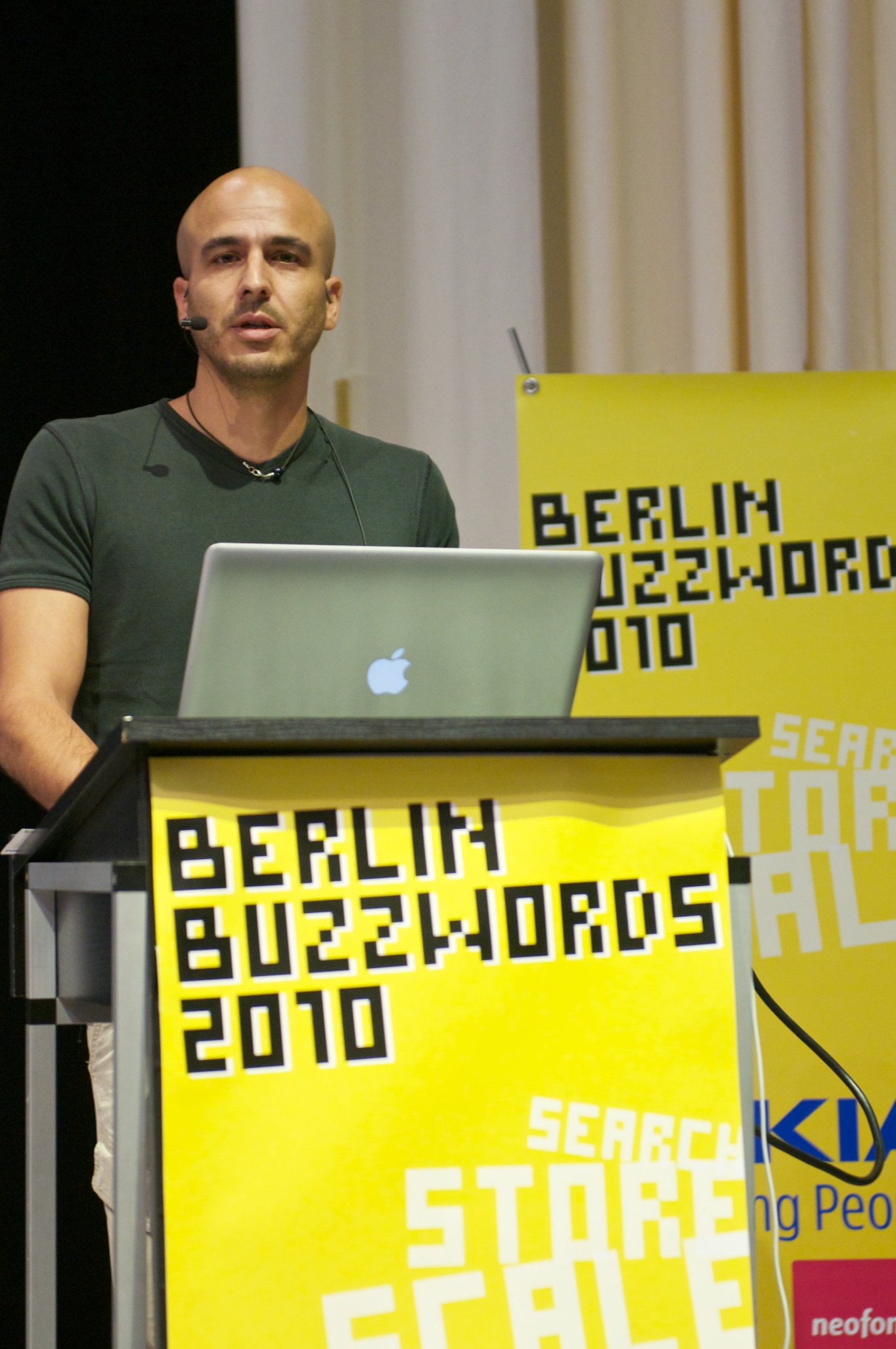 Shay Banon author of Elasticsearch on day 1 of Berlin Buzzwords 2010.